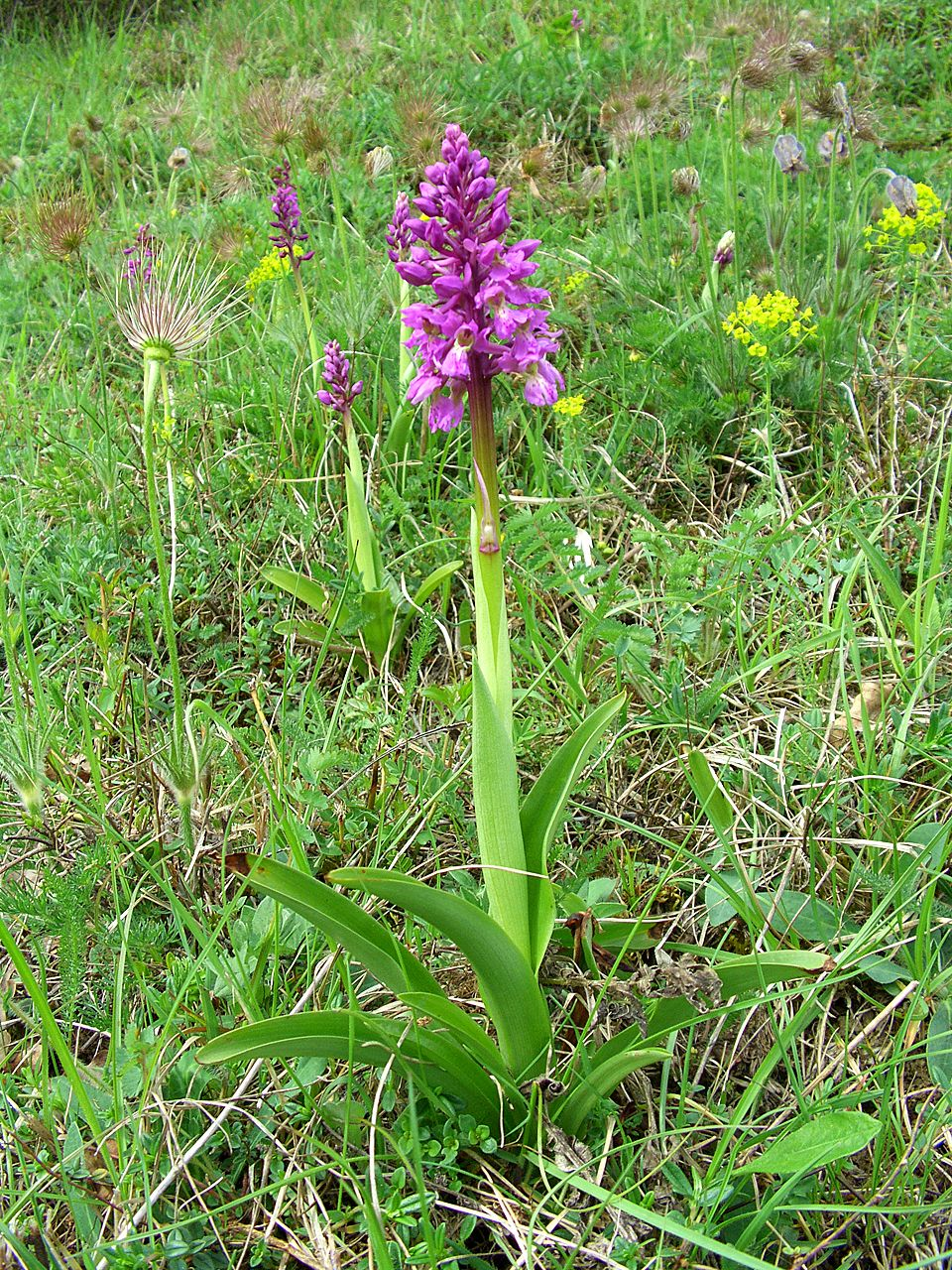 Orchis mascula